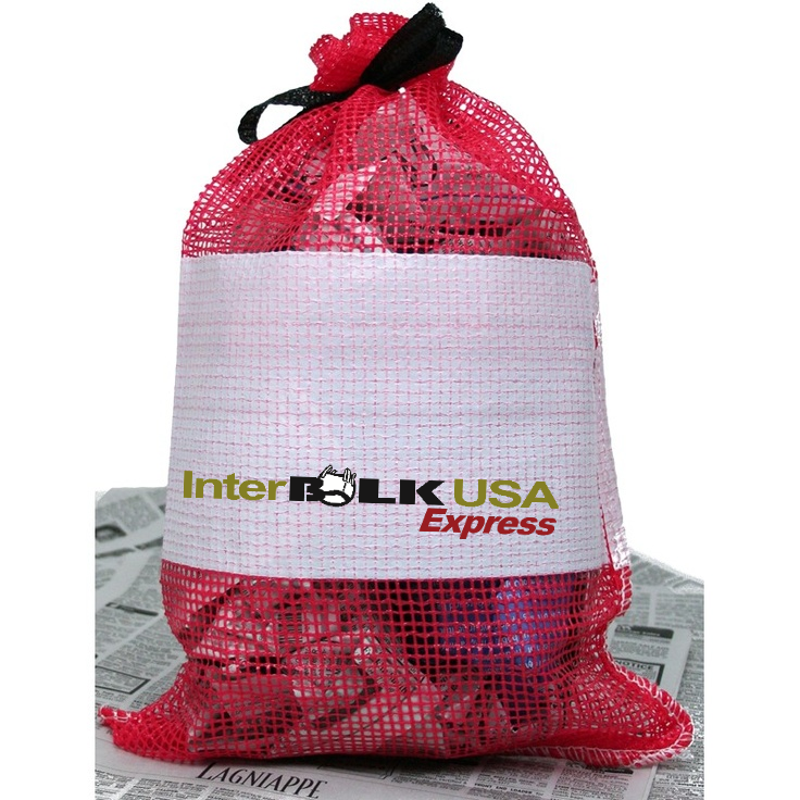 Example of a LENO woven mesh bag used for produce (onions or potatoes), shellfish (mussels or oysters) and firewood for kindling.